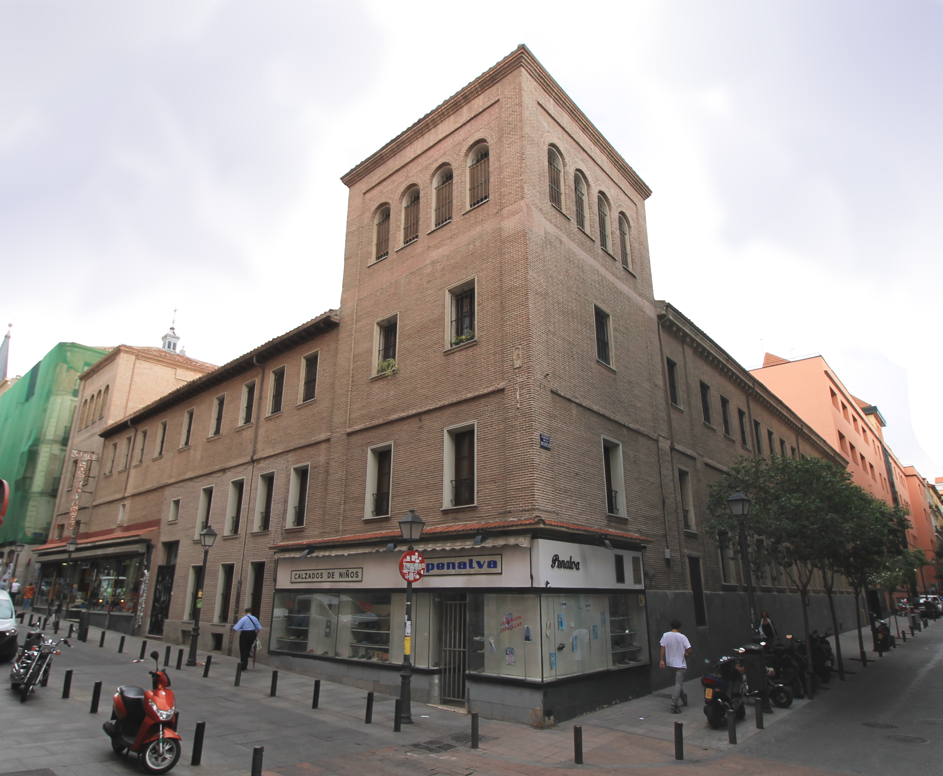 View of Saint Placidus Convent in Madrid (Spain).